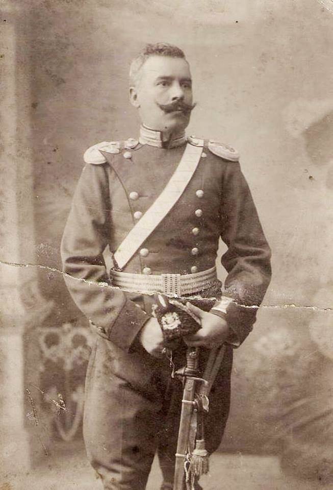 bulgarian revolutionary/ies